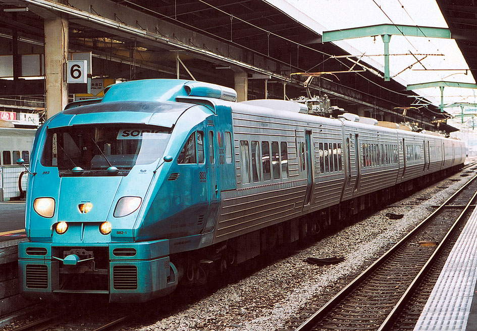 JR Kyushu 883 series EMU set AO1 in original livery